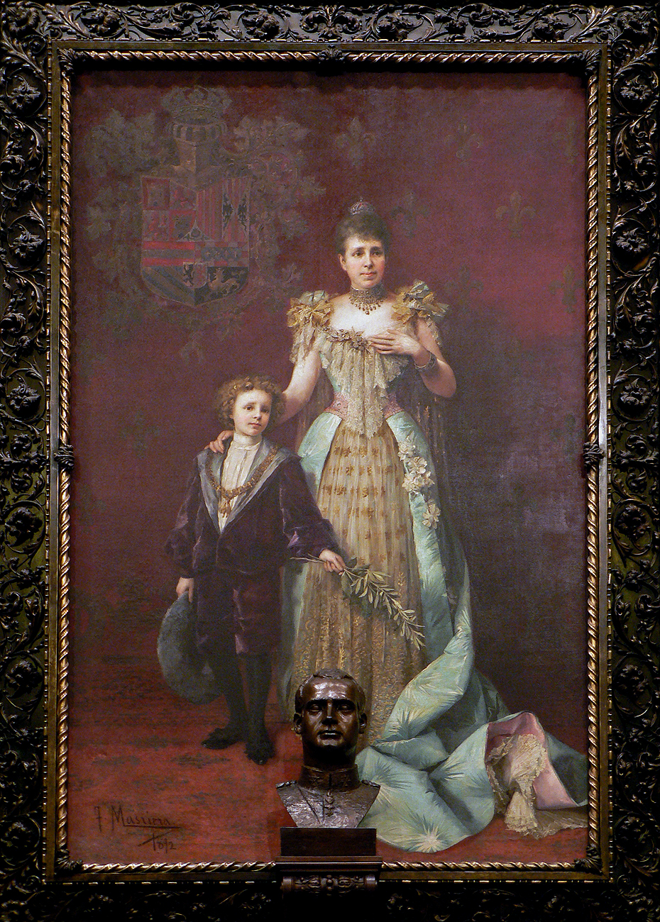 Portrait of Queen Maria Christina and King Alphonse XIII of Spain.label QS:Les,"Retrato de la Reina Regente María Cristina y del Rey Alfonso XIII." label QS:Len,"Portrait of Queen Maria Christina and King Alphonse XIII of Spain." label QS:Lca,"Retrat de la Reina Regent Maria Cristina i del Rei Alfons XIII."